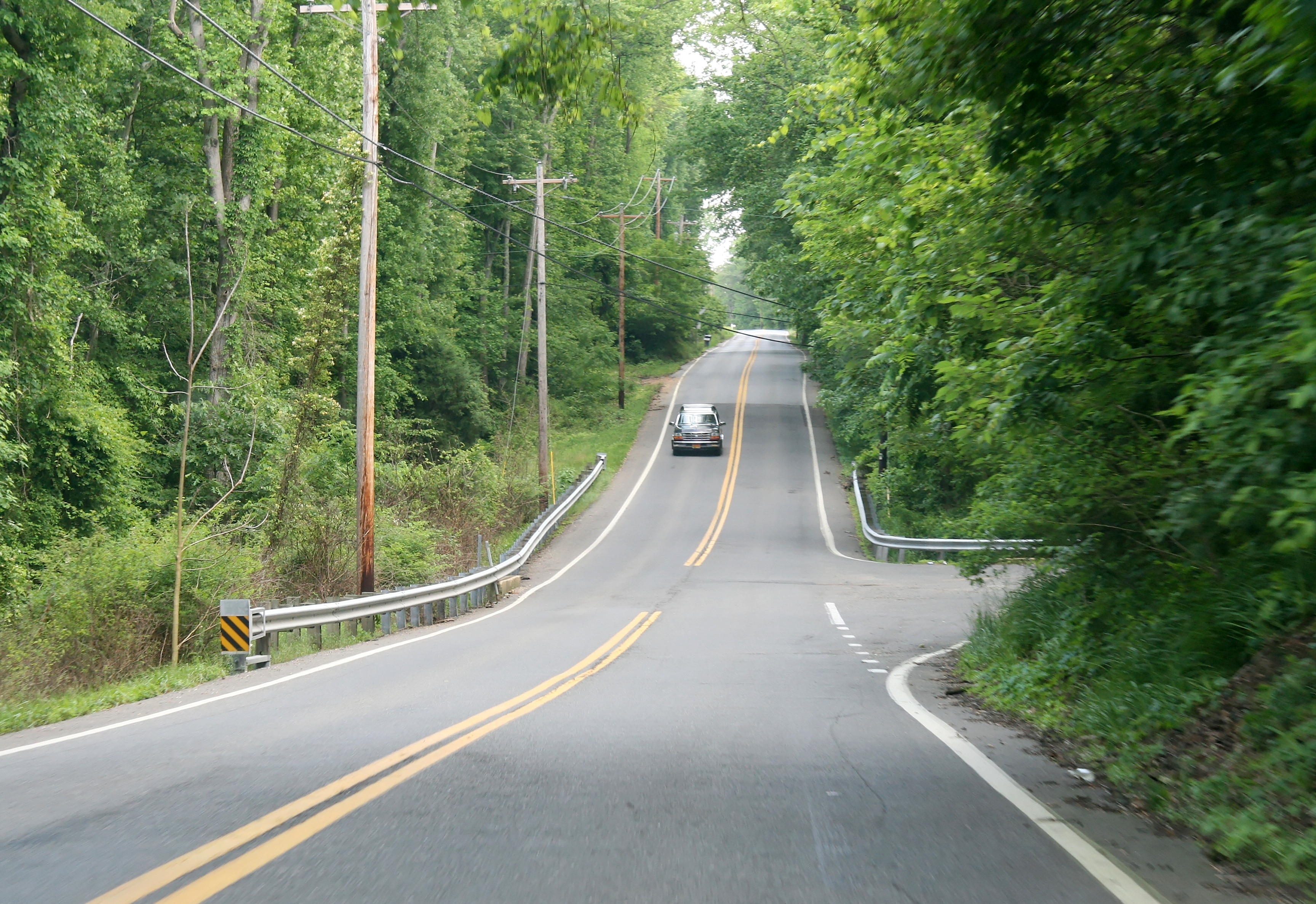 Shot of Maryland State Route 227 (Pomfret Rd), heading eastbound in Charles County in Southern Maryland. This is just before the turn into Brierwood Road.